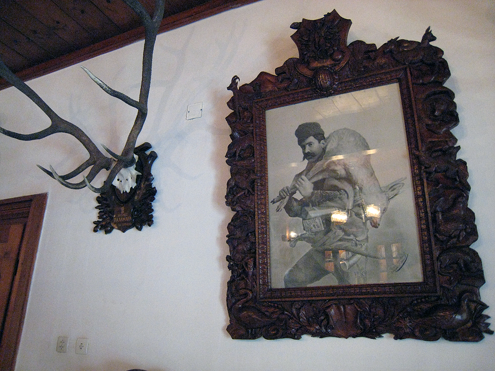 Portrait of Hristo Markov (personal hunter of Tsar Ferdinand) from Tsarska Bistritsa Palace, Bulgaria